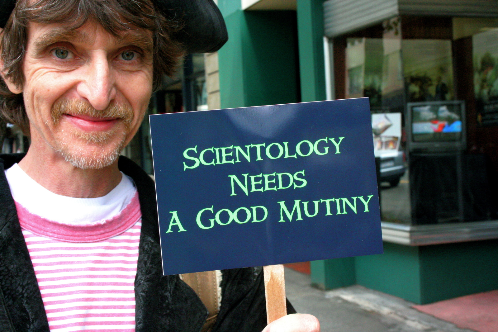 Gerry Armstrong protesting at a Vancouver Scientology building with a sign reading "Scientology needs a good mutiny".